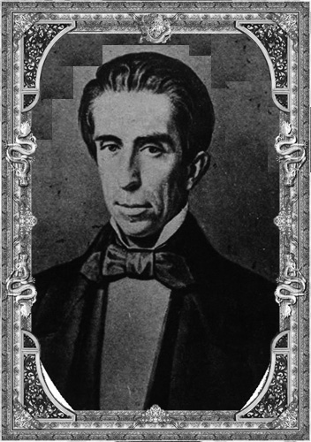 Francisco Javier Echeverría Migoni